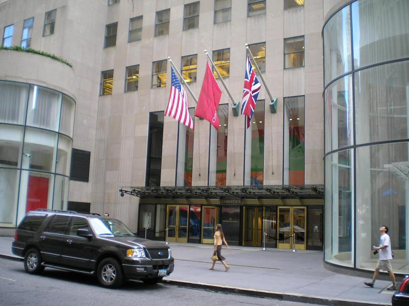 The author of this photo is me, David Shankbone. Taken 4 August 2006. Christie's New York Rockefeller Center. New York City